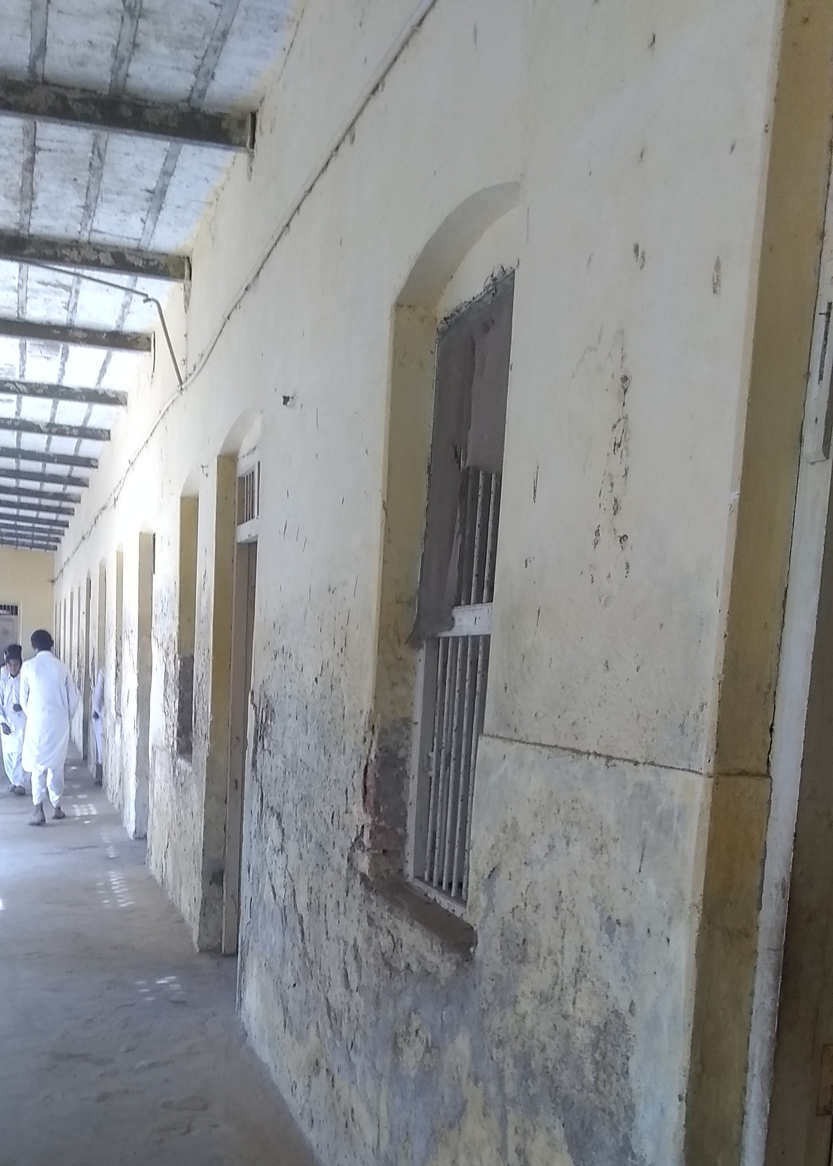 Molvi Abdul Karim